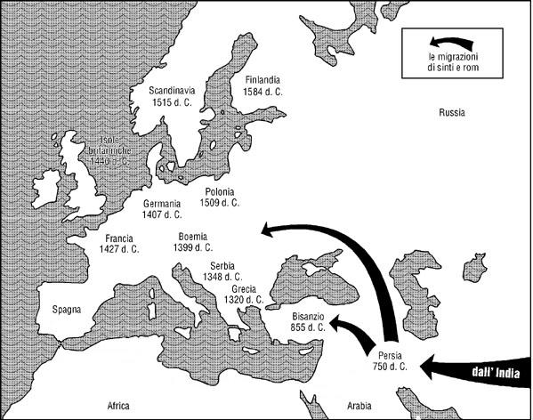 Historical map of rom and sinti arrive in Europe